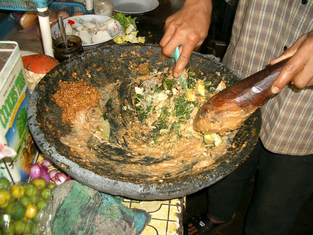 Lotek of West Java Indonesia, vegetable salad in peanut sauce.